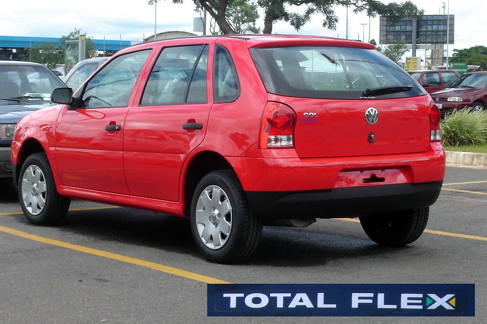 Volkswagen Gol Plus 2007 Edited with Photoshop over Wiki Commons pic VW Gol Plus by Antonio Saraiva, dated 13-12-2006.